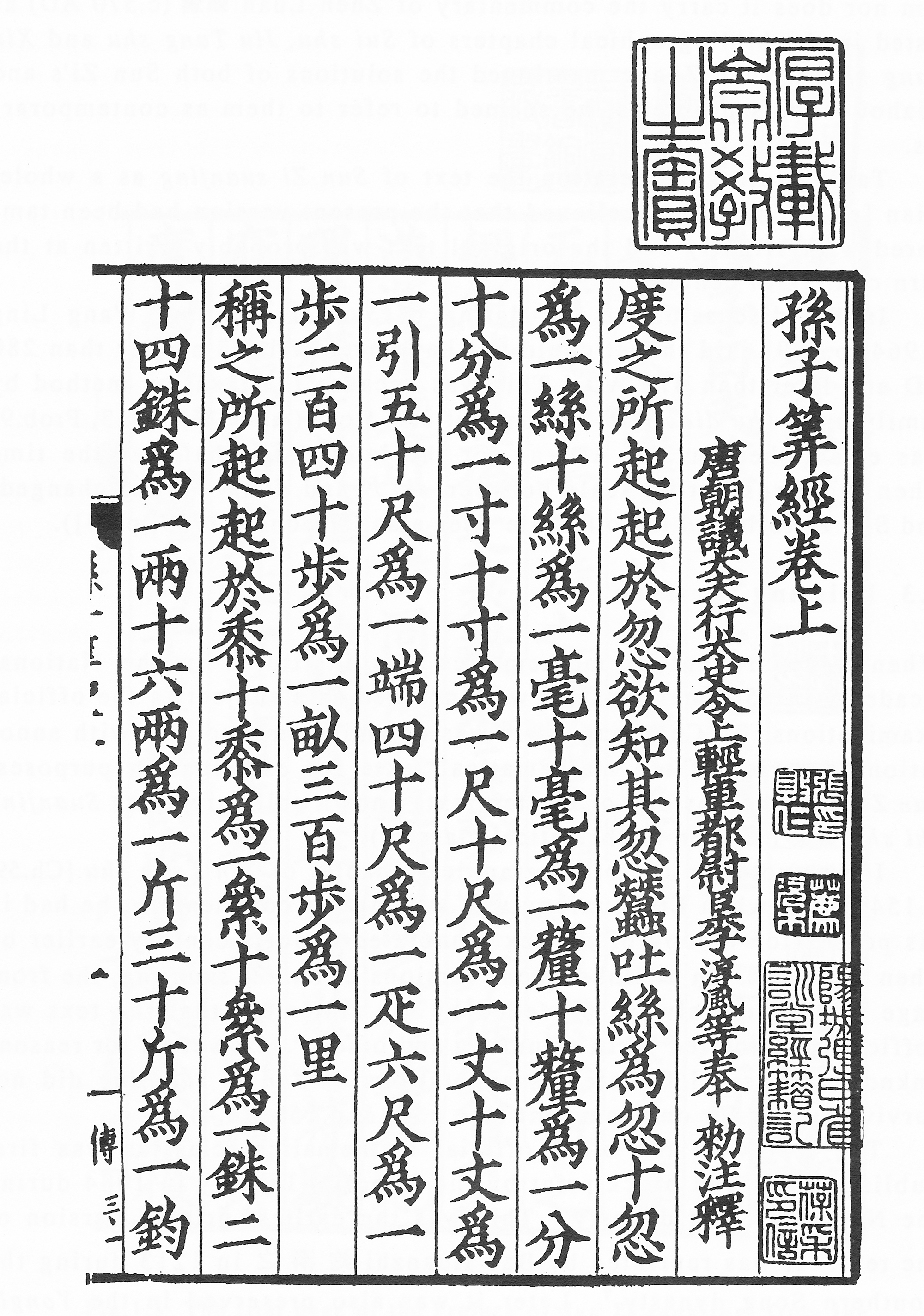 A print page from a Qing dynasty edition of Sun Zi Suanjing